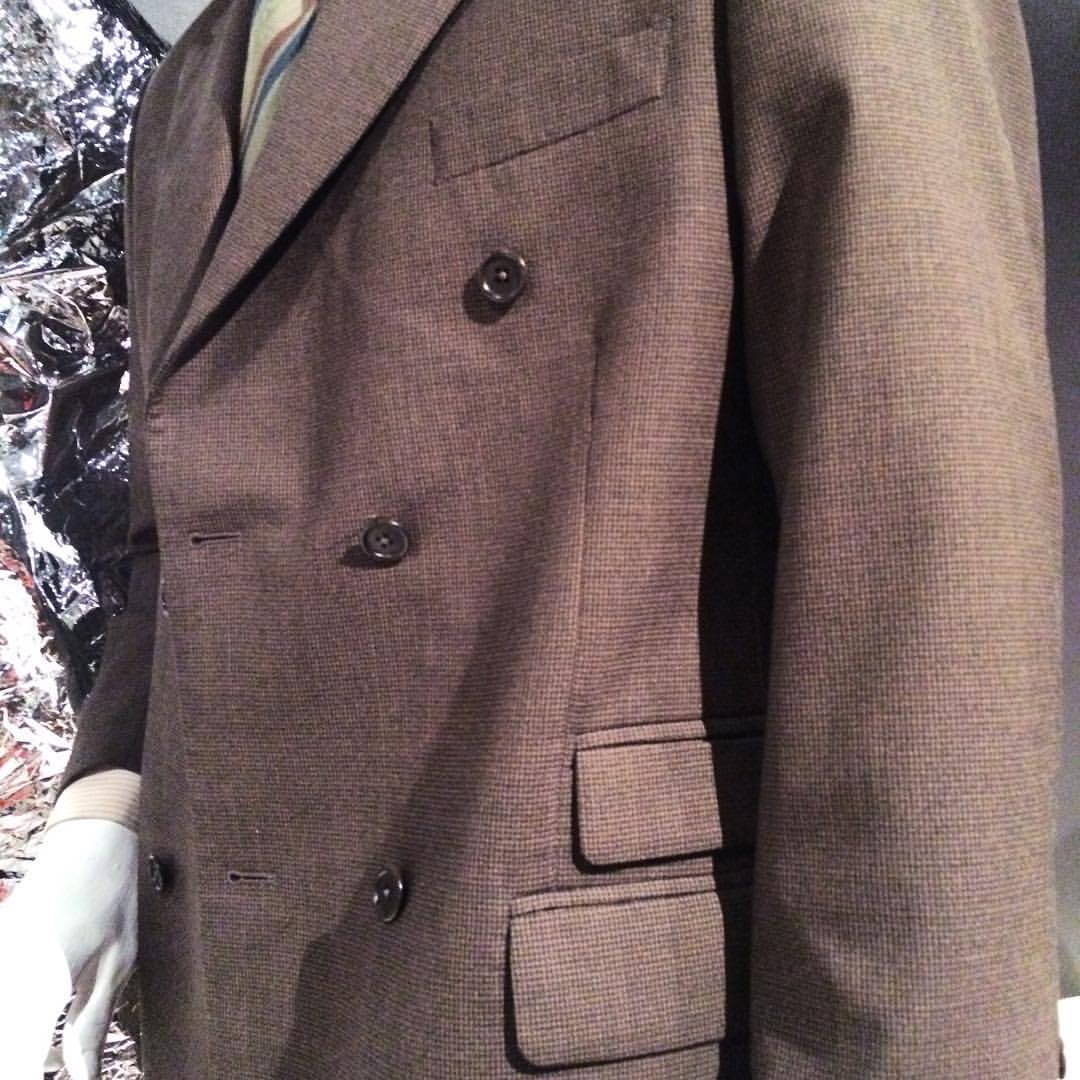 Costume from the television series Better Call Saul displayed at FIDM Museum, Los Angeles, CA.